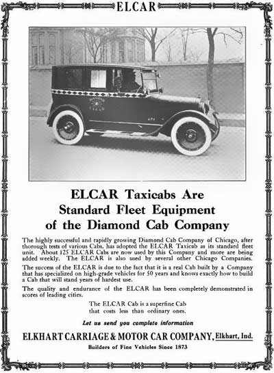 1922 Elcar taxicab advertisement referring to the vehicle as Standard fleet Equipment of the Diamond Taxicab Co of Chicago.